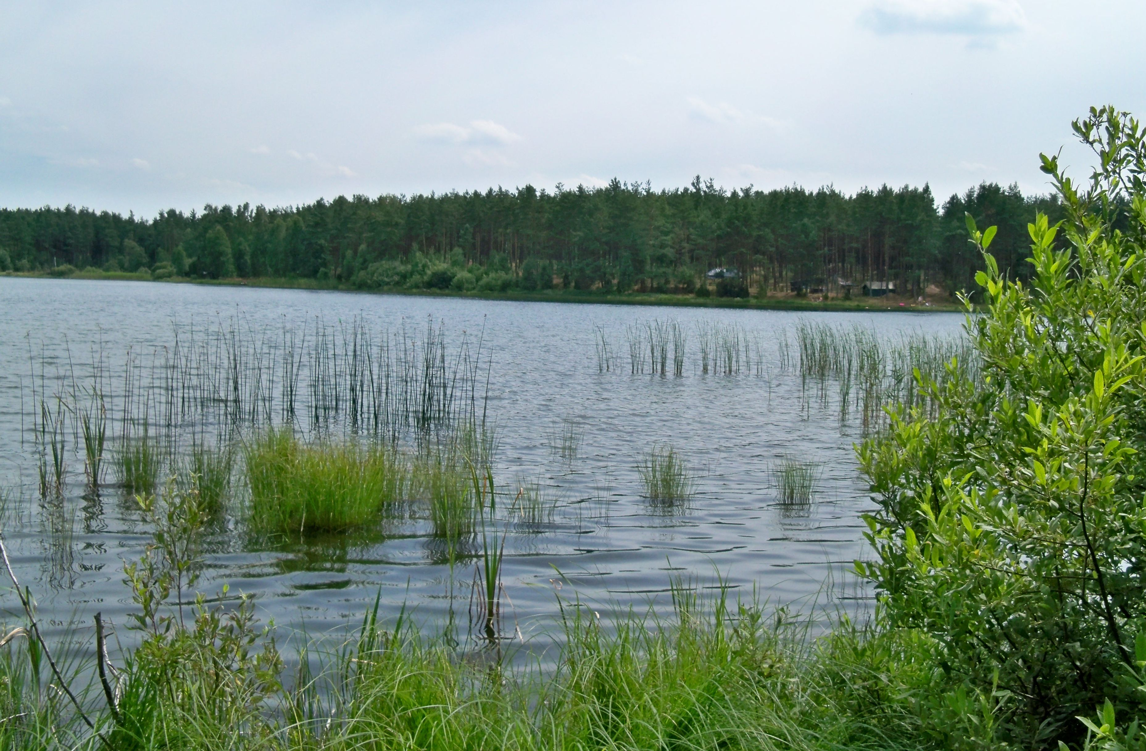 Kotel Lake (Poland)